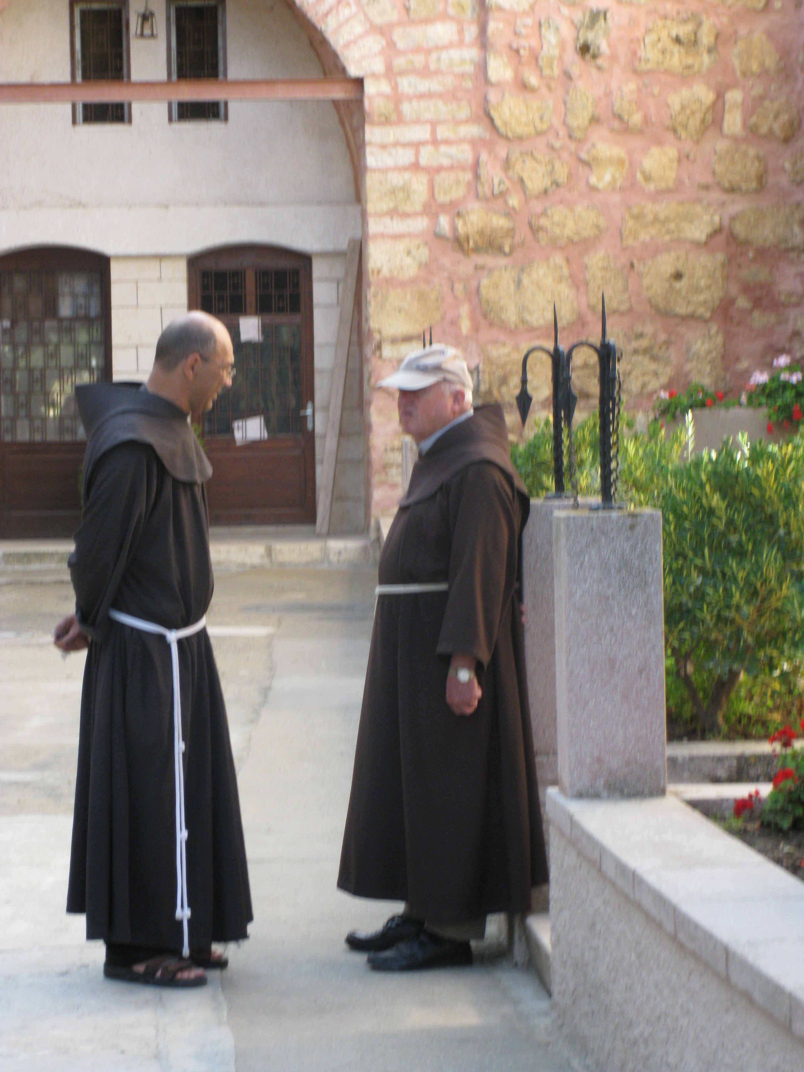 Church of the Visitation